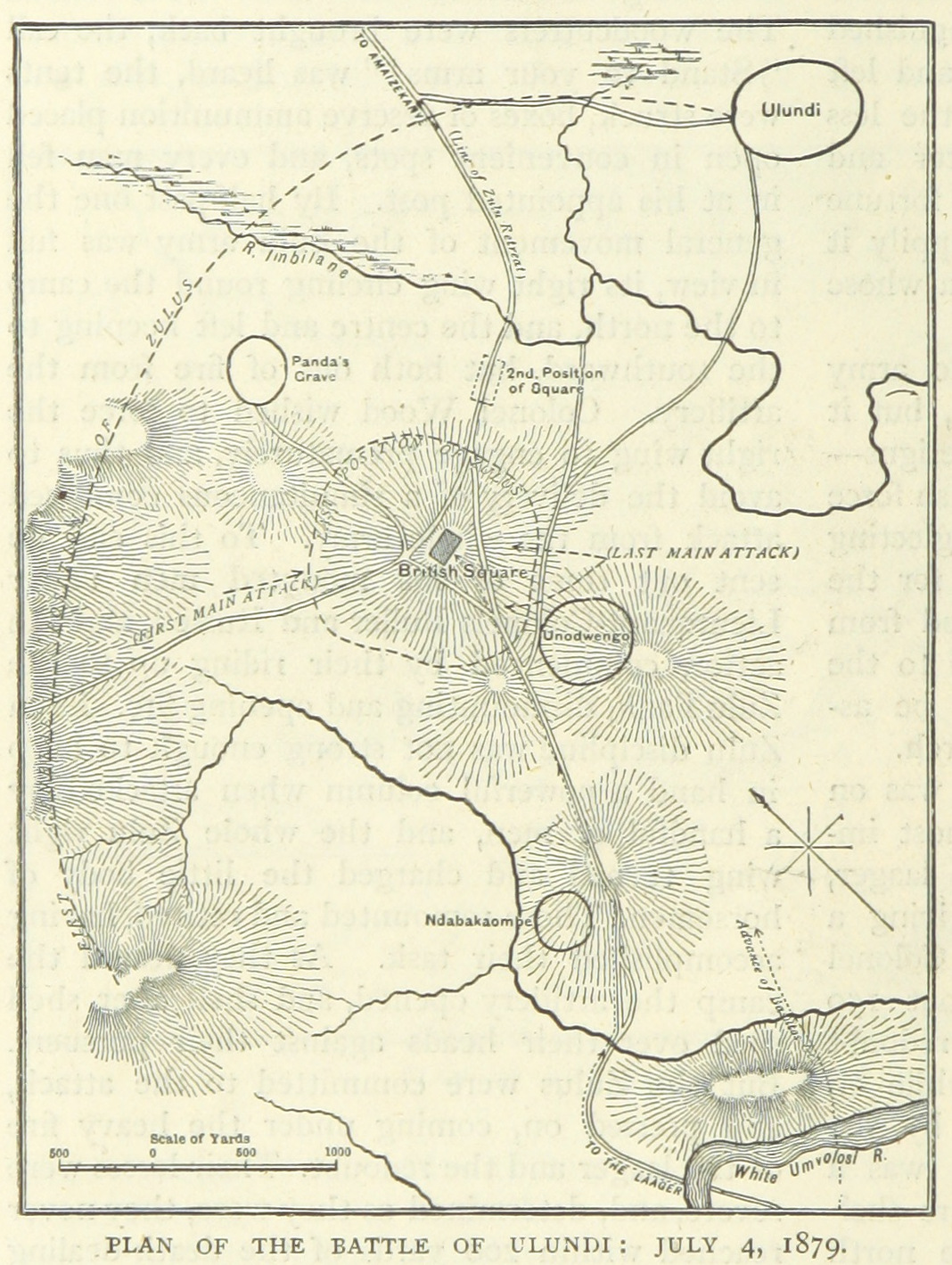 The 1879 Battle of Ulundi, last battle of the Anglo-Zulu War.